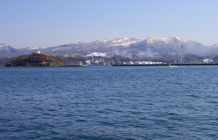 Mount Washibetsu seen from Uchiura Bay, offshore Muroran